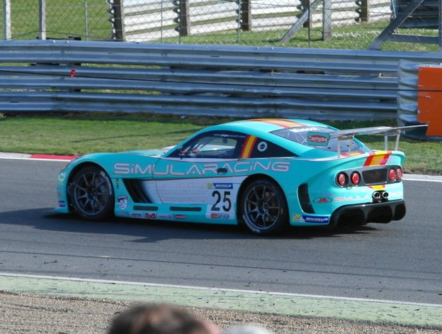 Picture of Pepe Massot's Ginetta G55 car for the 2014 GT4 Supercup at Brands Hatch, Mar 29th 2014.